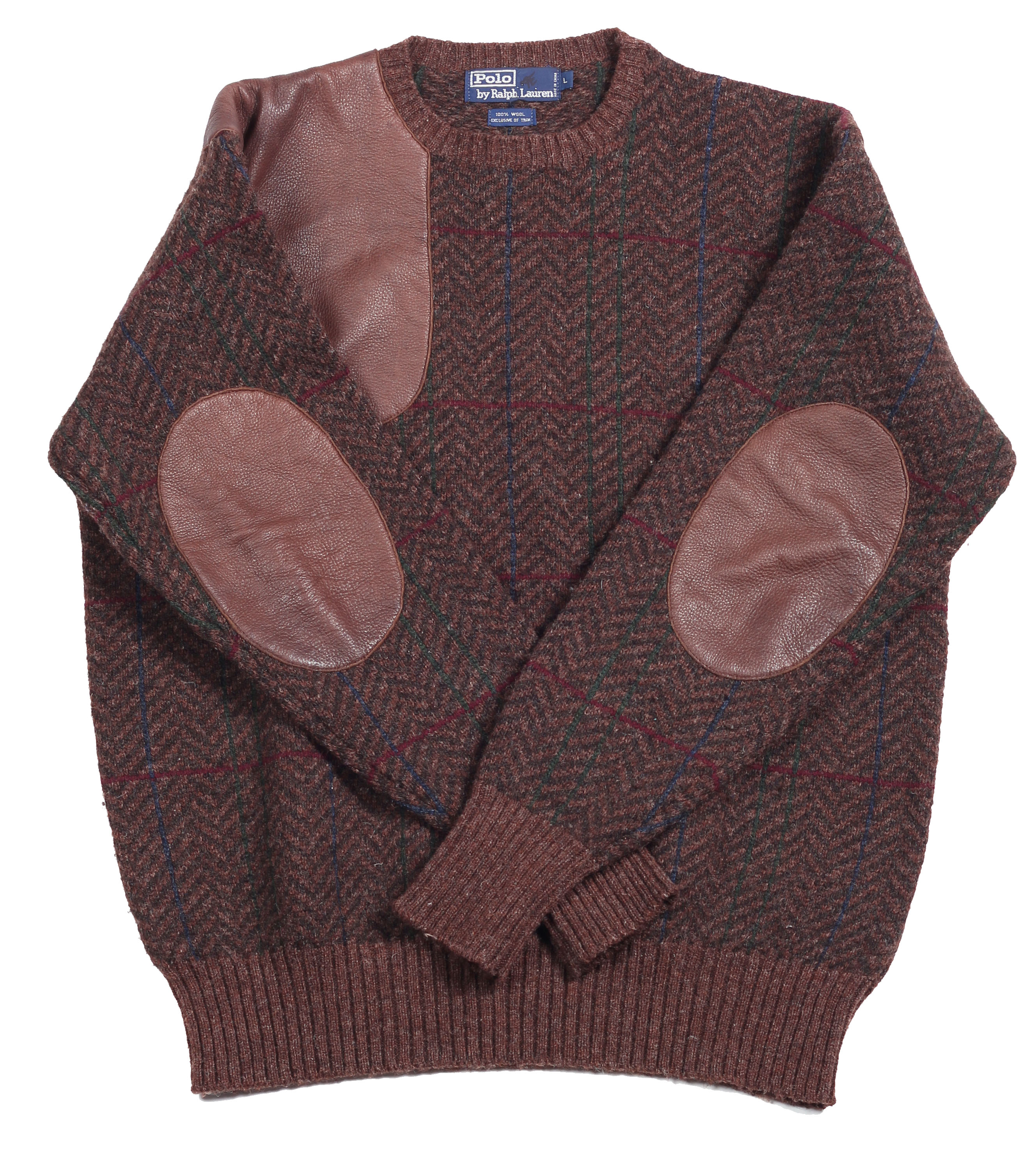 Gun Patch Sweater by Polo Ralph Lauren. Photo by Menswear Market